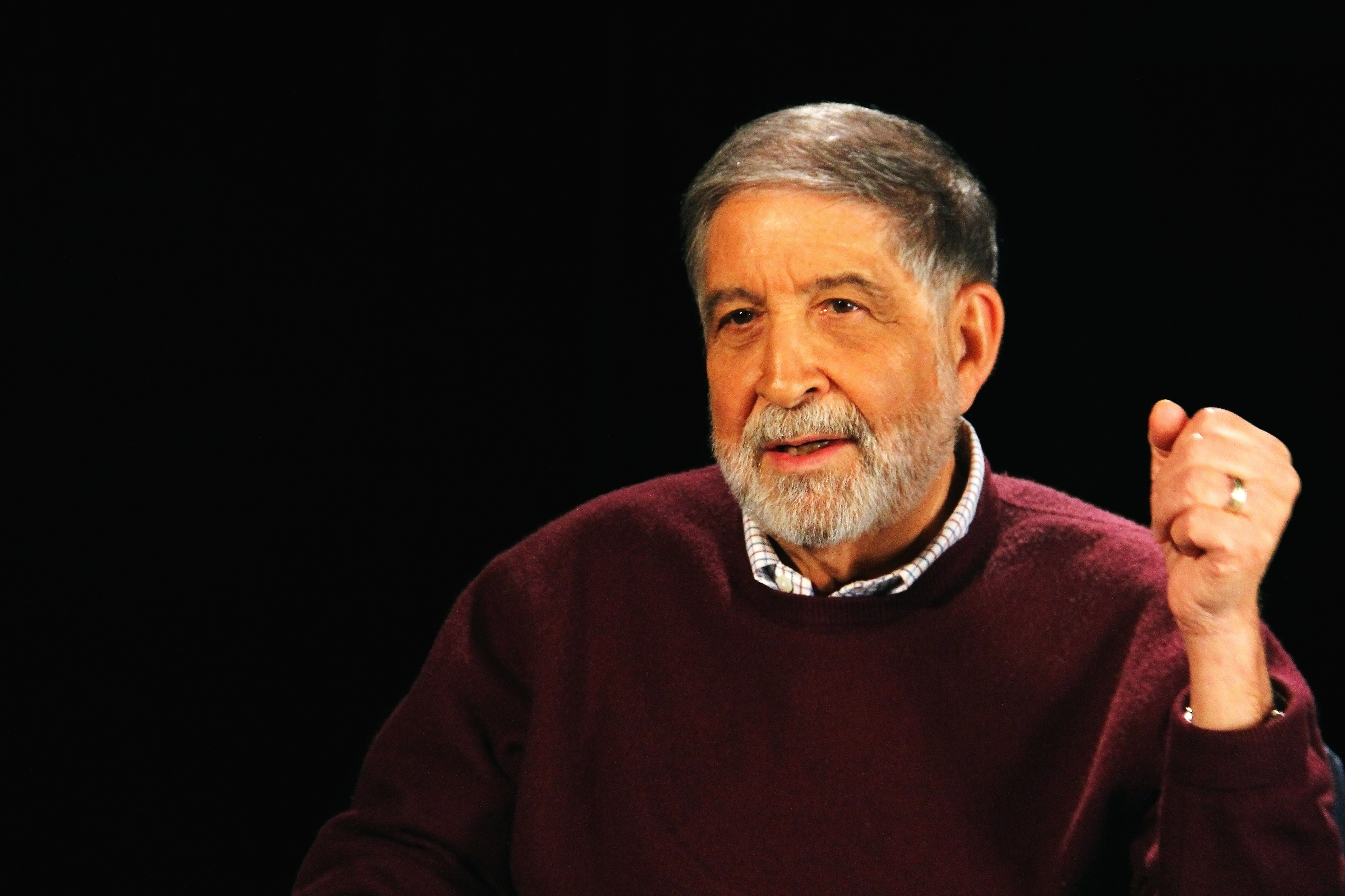 Mickey Edwards in a taping of A Conversation With, for OETA (Oklahoma Education Television Authority)